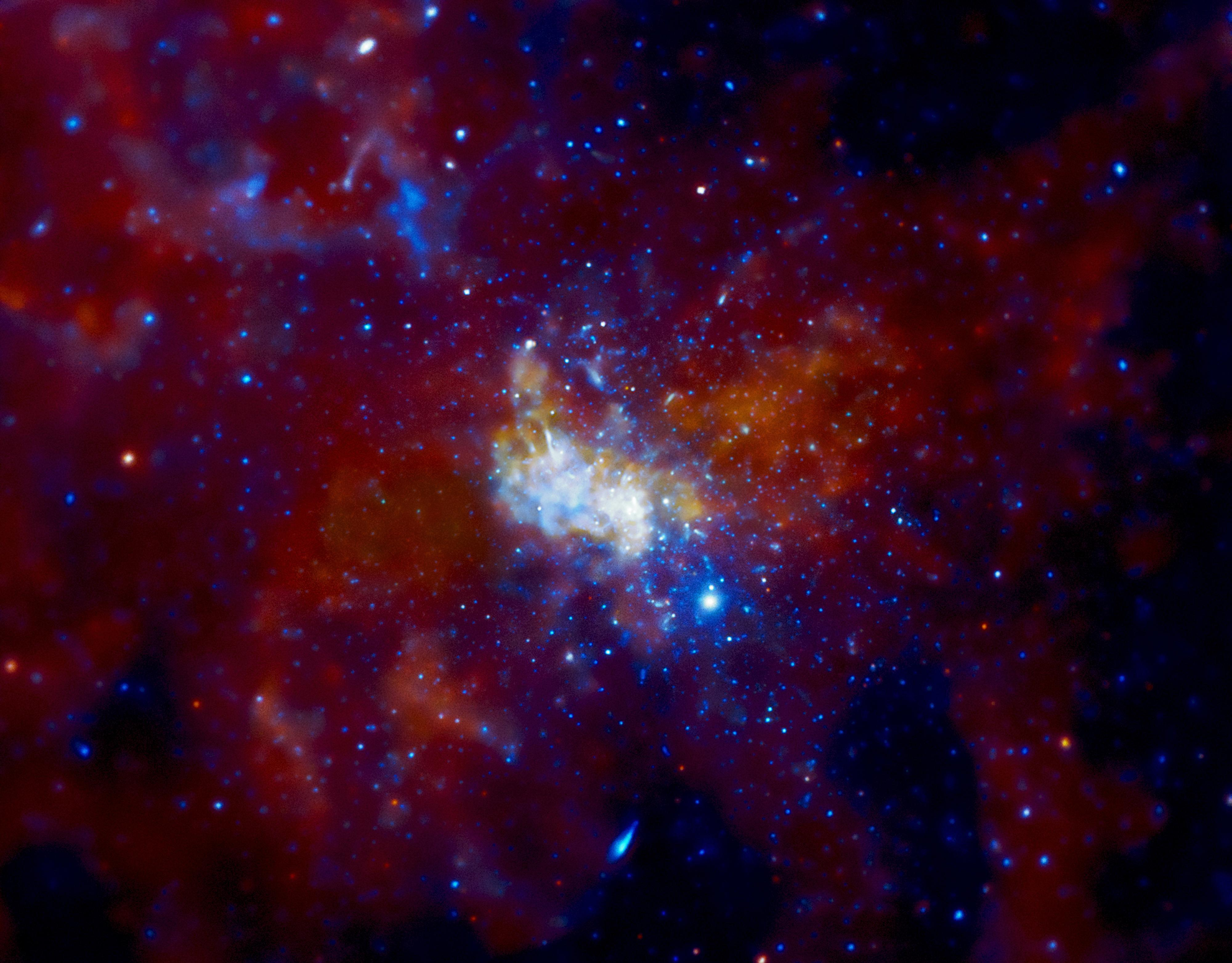 This Chandra image of Sgr A* and the surrounding region is based on data from a series of observations lasting a total of about one million seconds, or almost two weeks. Such a deep observation has given scientists an unprecedented view of the supernova remnant near Sgr A* (known as Sgr A East) and the lobes of hot gas extending for a dozen light years on either side of the black hole. These lobes provide evidence for powerful eruptions occurring several times over the last ten thousand years. The image also contains several mysterious X-ray filaments, some of which may be huge magnetic structures interacting with streams of energetic electrons produced by rapidly spinning neutron stars. Such features are known as pulsar wind nebulas.